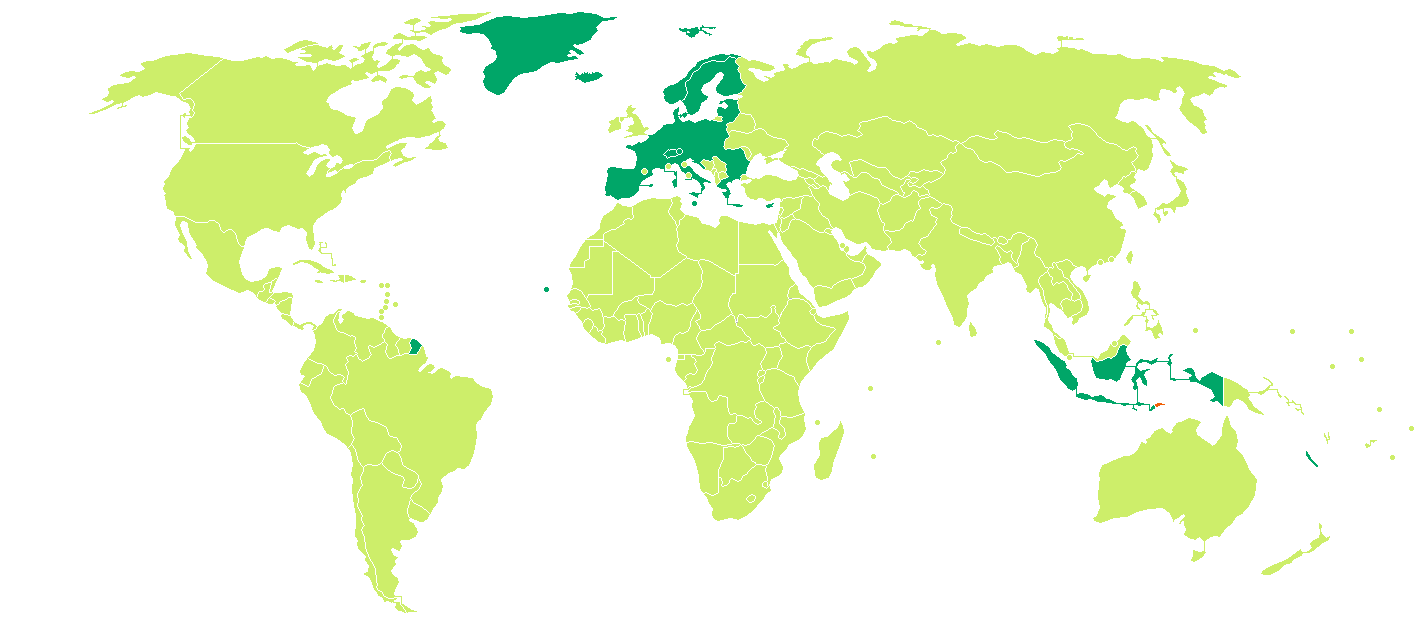 Visa policy of East Timor East Timor Visa free access Visa on arrival at Dili airport or seaport only